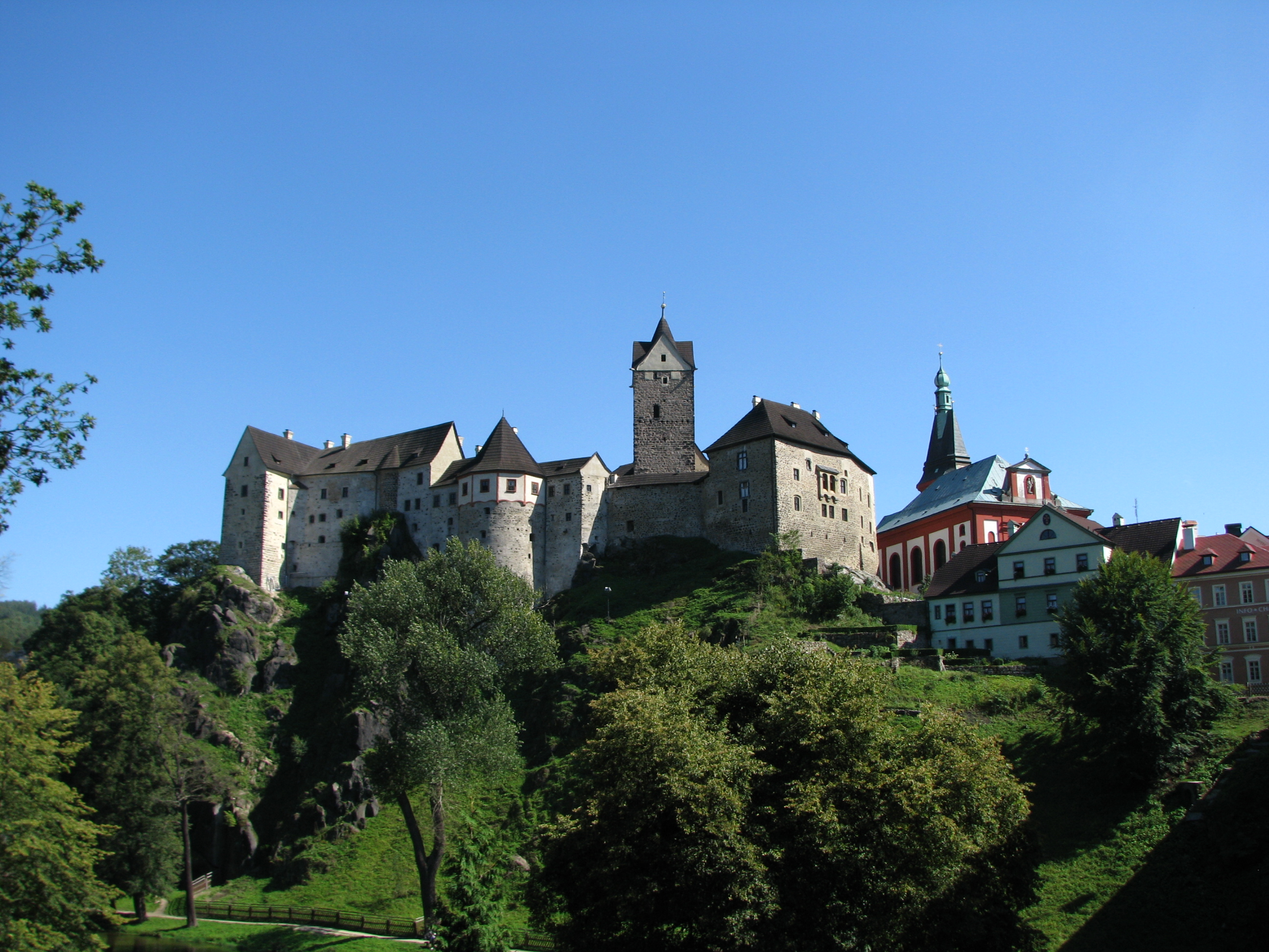 View of Loket Castle, CZ.